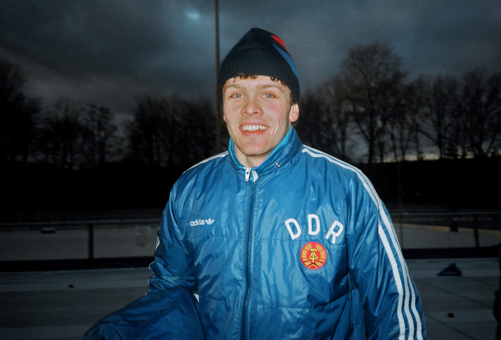 German speedskater Peter Adeberg